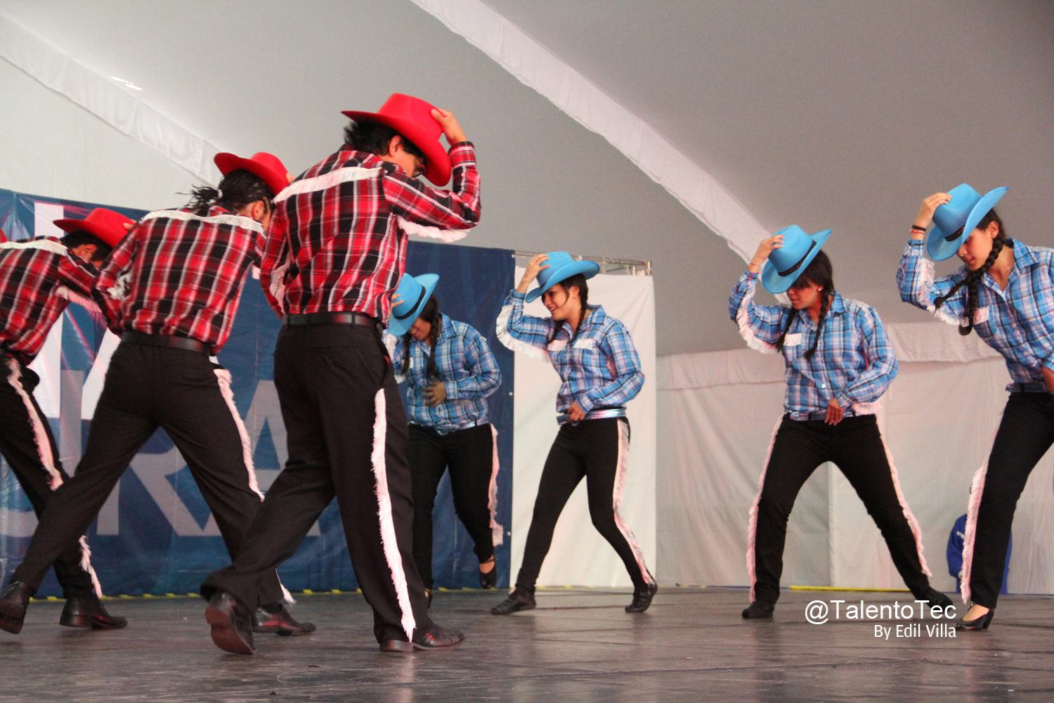 Student performers of "Quebradita" at "Semana de la cutura" (Week of the culture) in the Monterrey Institute of Technology and Higher Education, Mexico City (ITESM CCM).